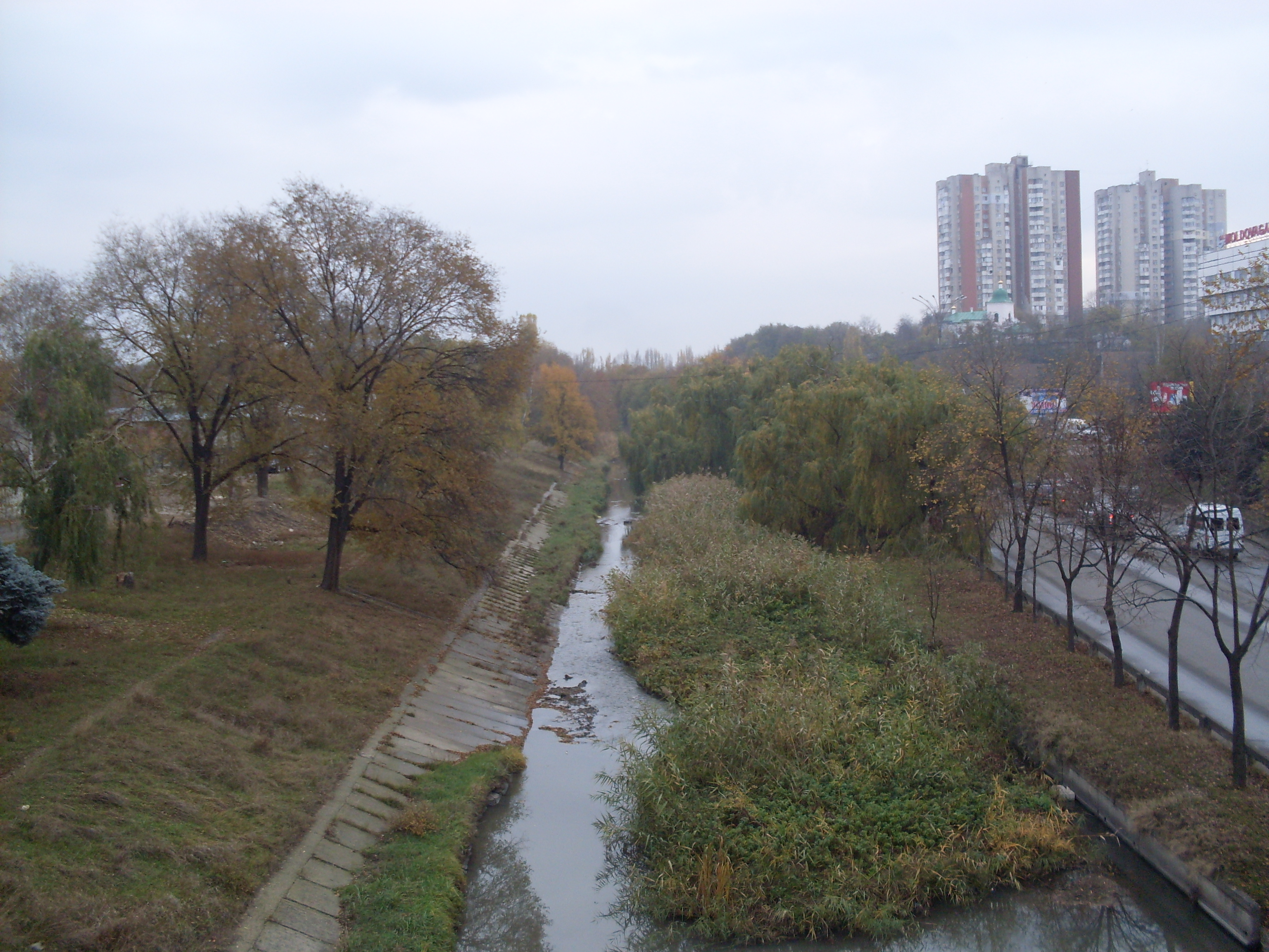 Bîc river seen from Renaşterii avenue